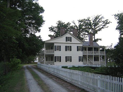 1830s Somerset Place in Washington County, North Carolina. I am the author of this file and hereby grant it's use to Wikipedia.